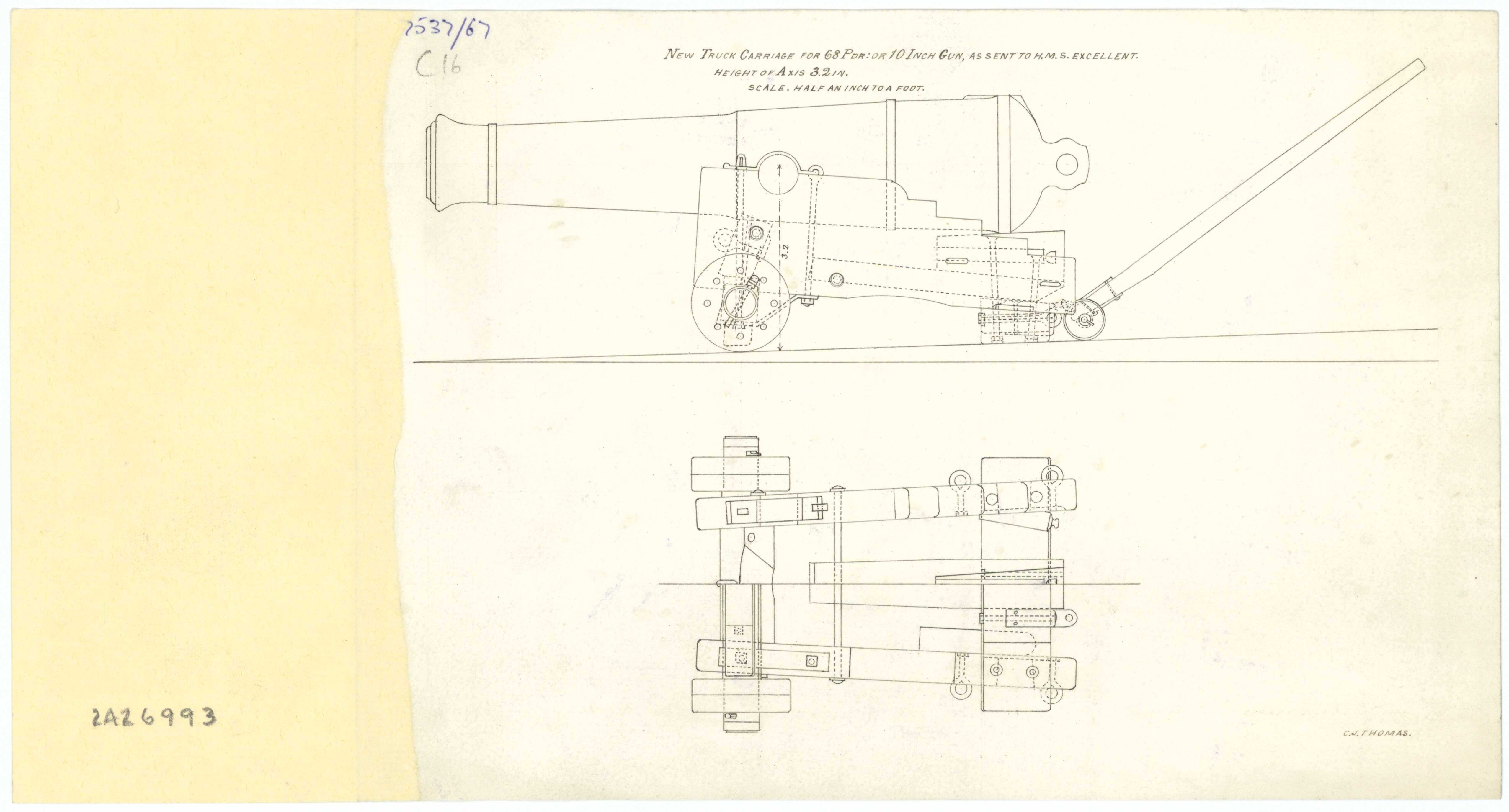 Excellent (1787) Scale: 1:24. Plan showing the elevation of the gun and carriage, and split view of the carriage to show the construction from above and below, relating to a new Truck Carriage for a 68 pounder or ten inch Gun sent to HMS Excellent (1787), a 74-gun Third Rate, two-decker, possible after she was cut down to a 56-gun Frigate. The date of the plan is based on ZAZ6992. NMM, Progress Book, volume 6, folio 88, states that in December 1825 she was 'Taken in hand' at Portsmouth Dockyard, but no details are given regarding the work carried out. carriage, gun